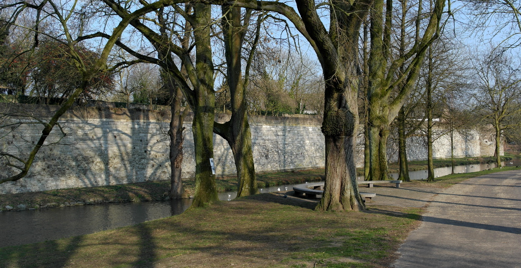 View from Stadspark of Nieuwenhofwal, part of the second Medieval city wall of Maastricht, the Netherlands.